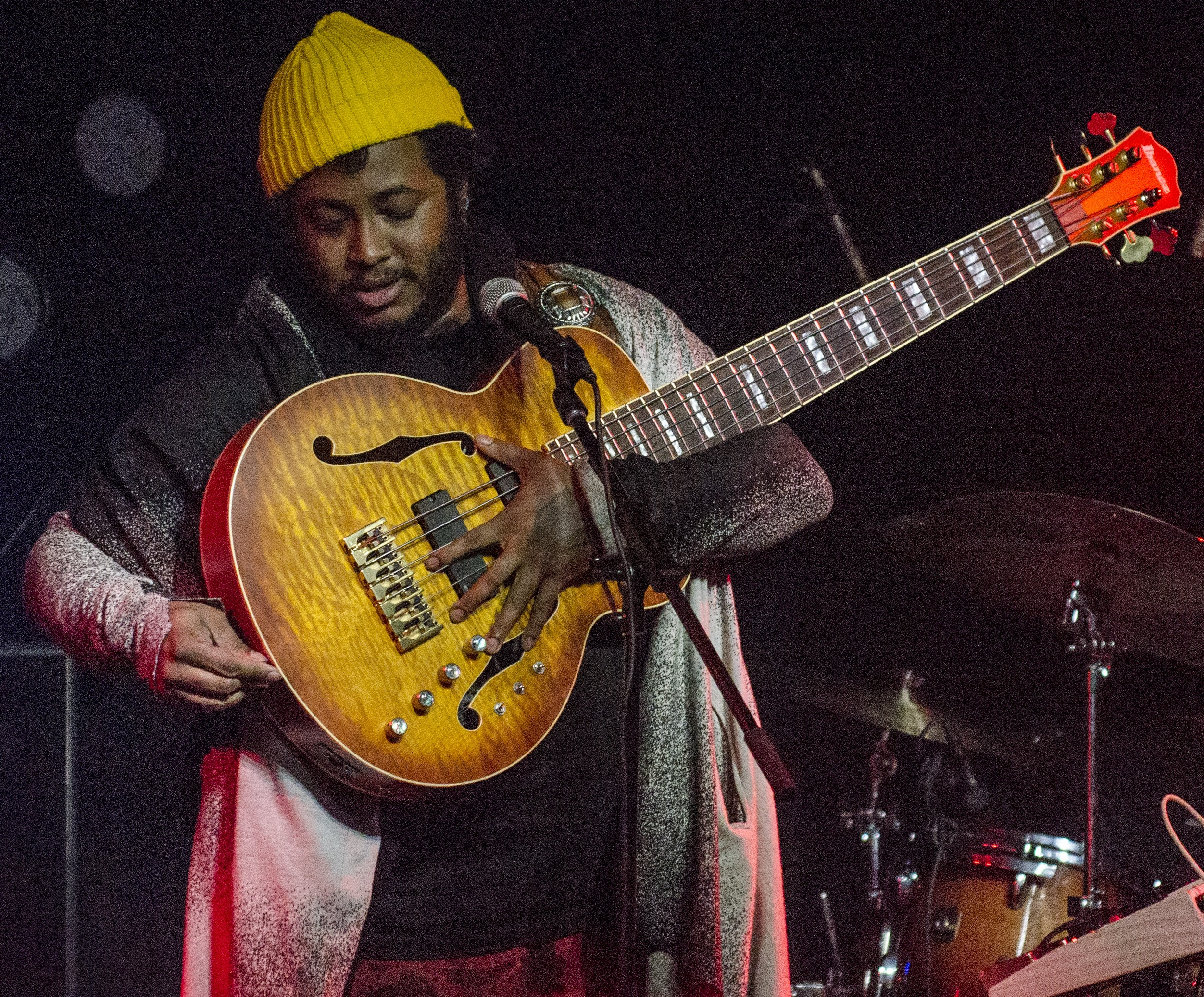 Thundercat performing at The Hoxton in Toronto on September 27, 2015.